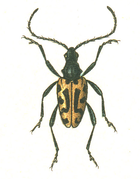 Brachyta interrogationis